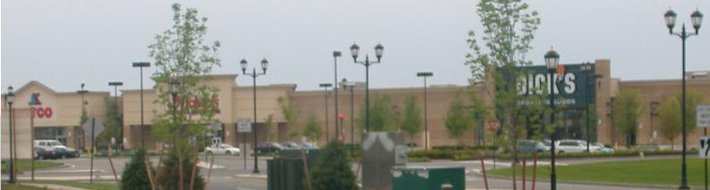 Colony Place in Plymouth, Massachusetts